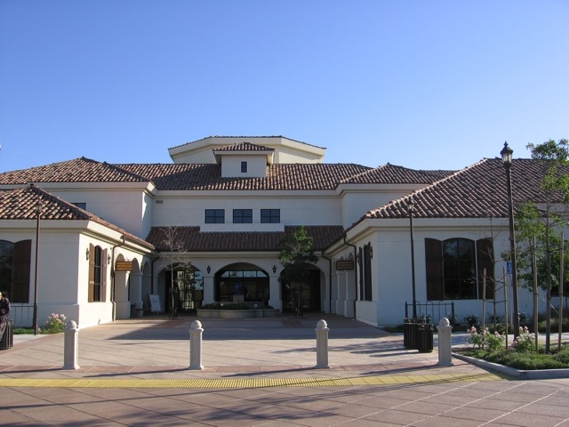 This is the front entrance of the City of Camarillo Public Library. I took this picture for a class project in November 2009. The Rare Blends cafe is to the left of the entrance and the Friends of the Camarillo Library Book Store is adjacent to the cafe.